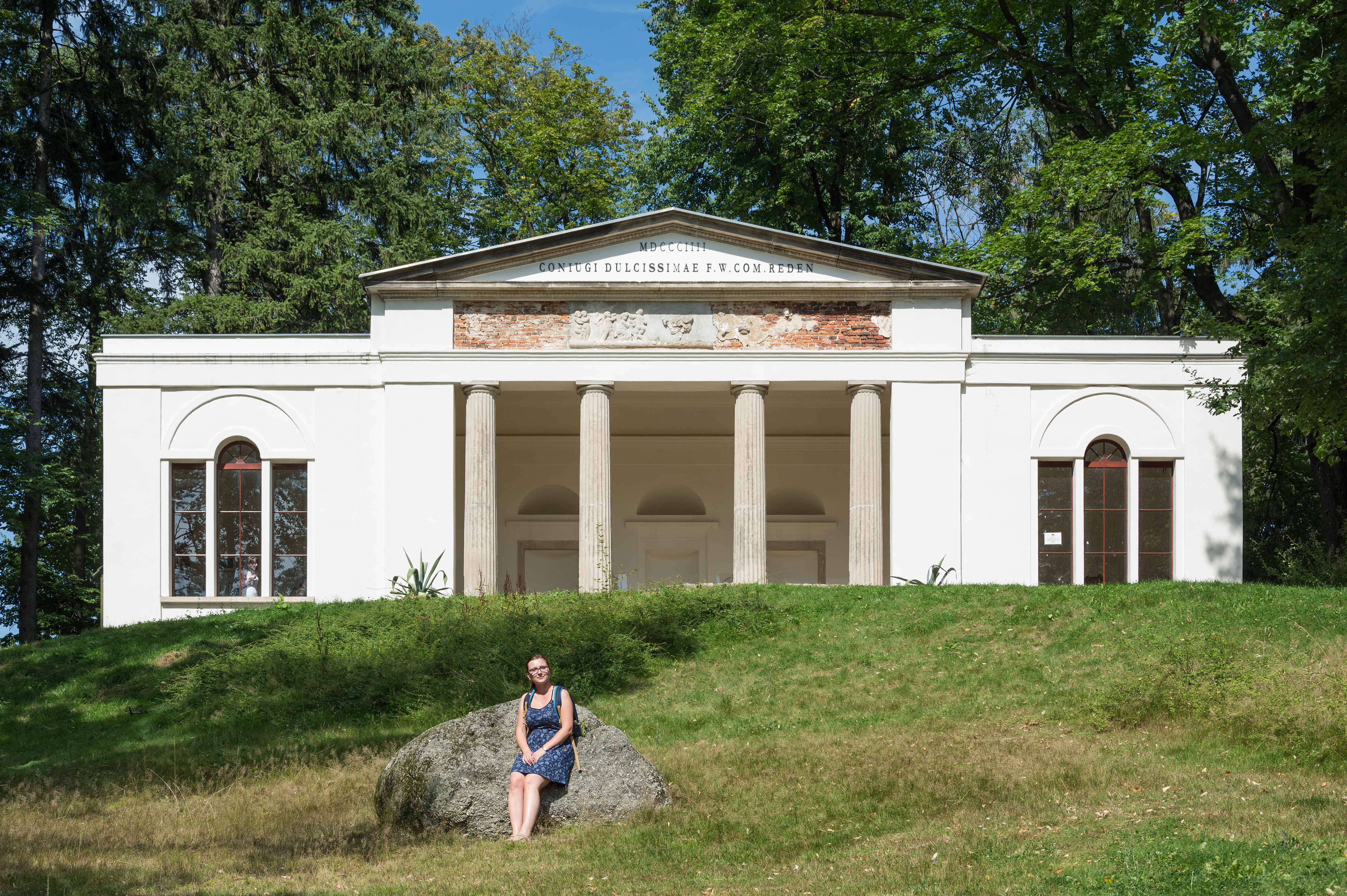 Park pavilion in Bukowiec